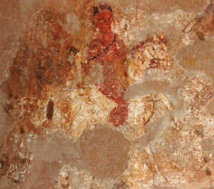 One of the three Magis from the nativity scene within the so-called "Throne Hall of Dongola"